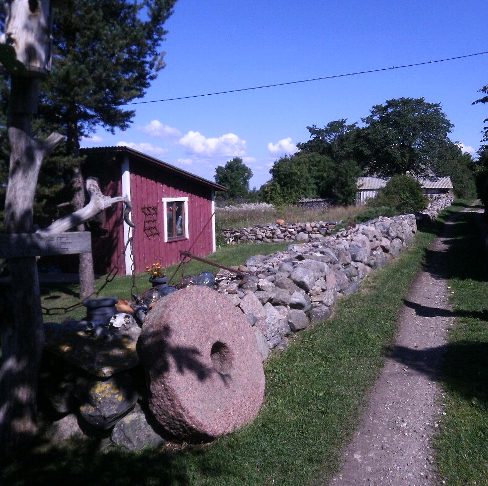 Village in Abruka island, Estonia.